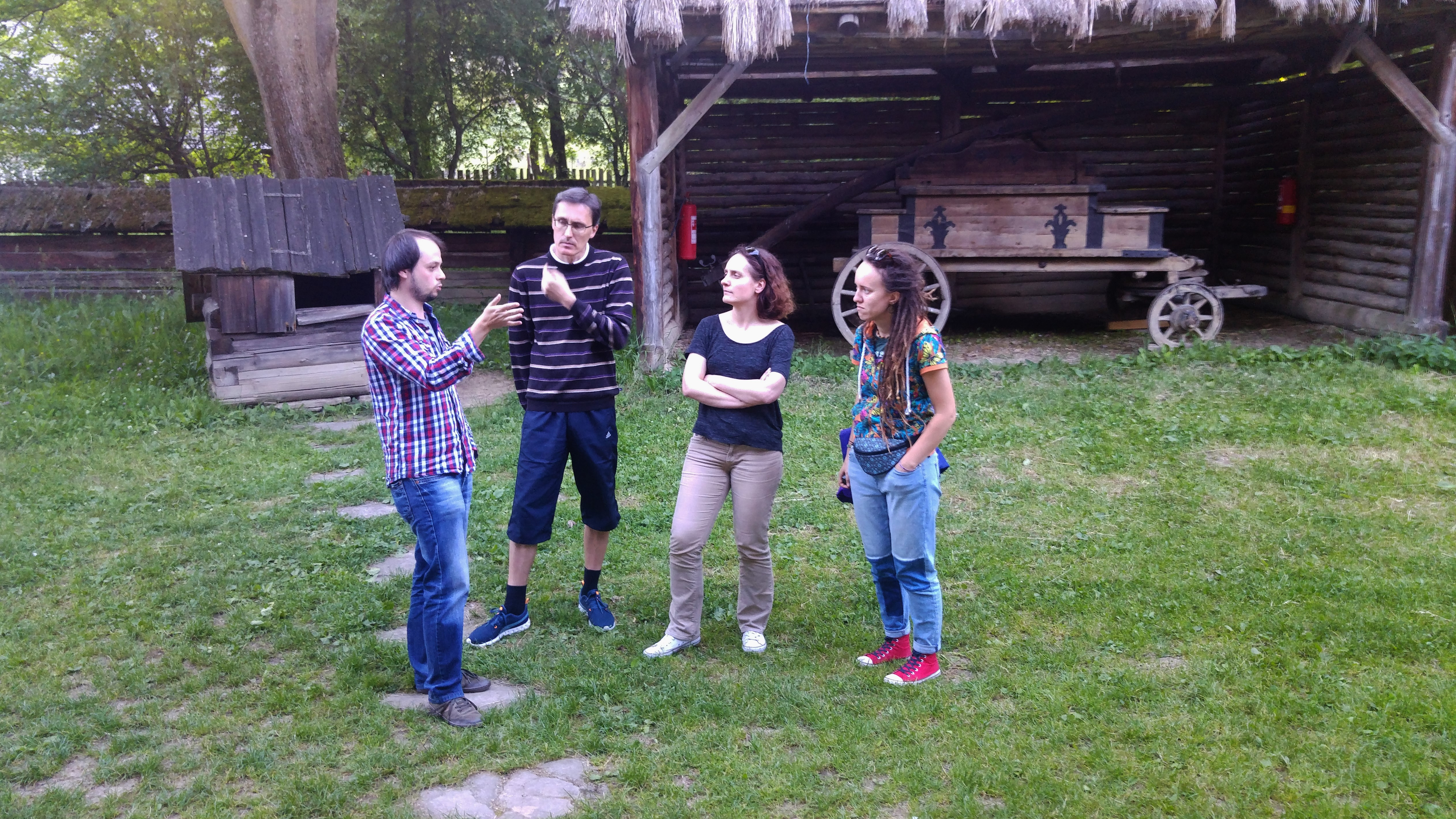 Team of ethnographers with museum worker - open-air museum in Martin. Carpathian Ethnography project (Wikimedia Foundation grant)